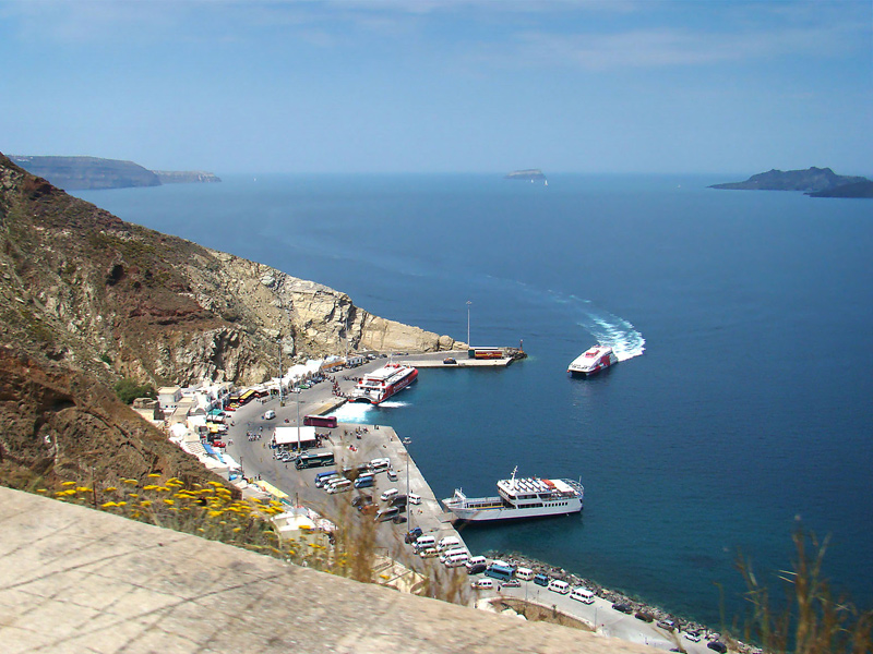 Athinios Port, Santorini, Greece.